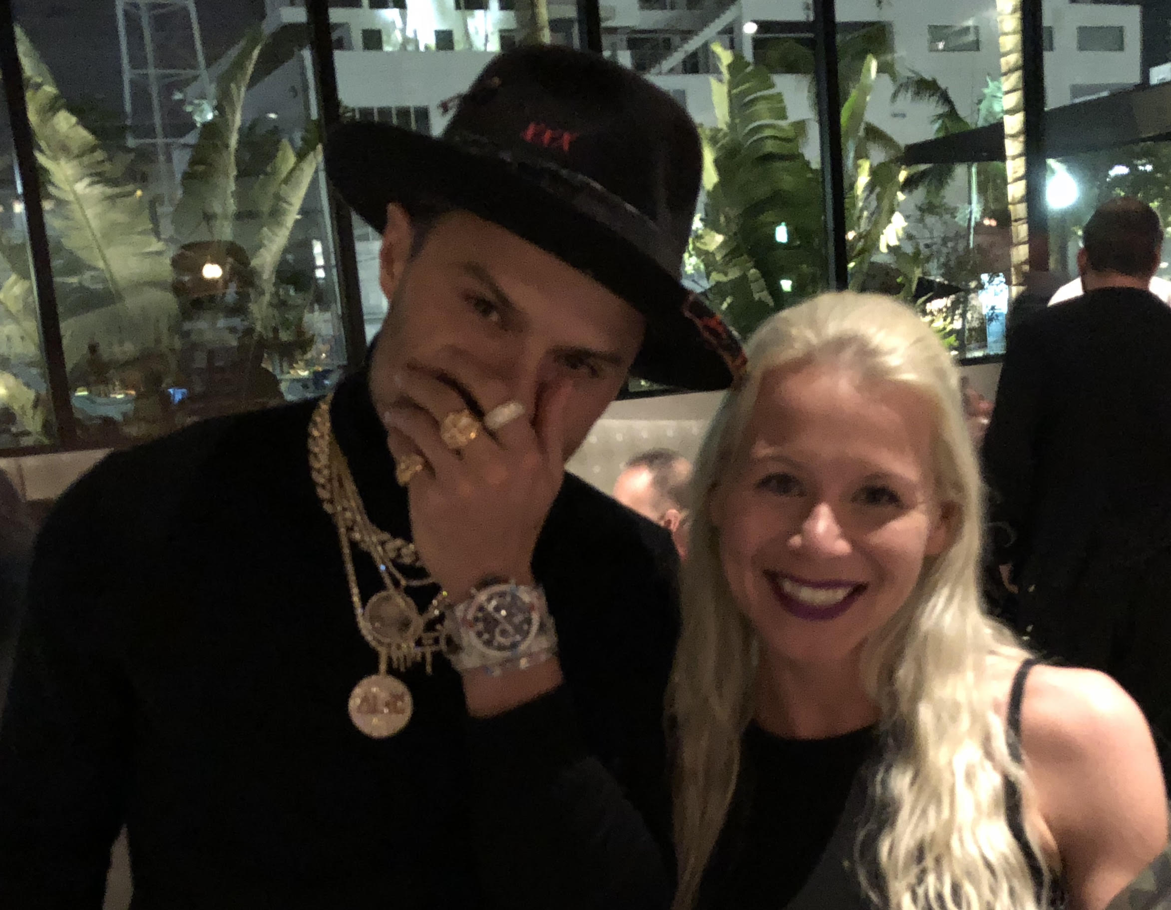 Alec Monopoly and Zivana Sever Toplak in Planta South Beach